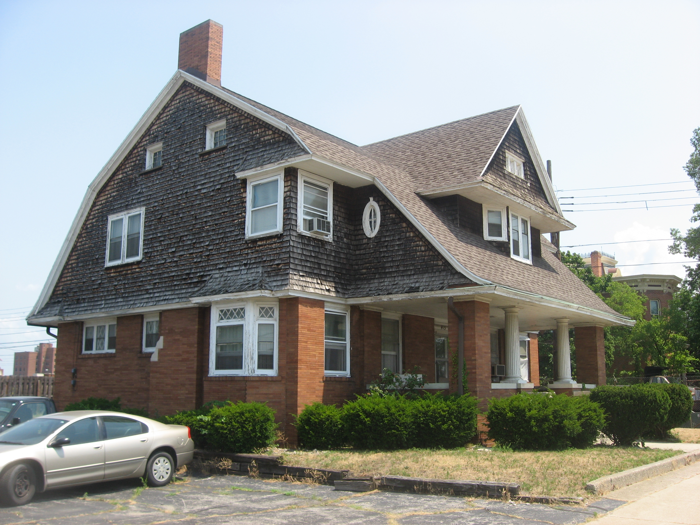 Western side and front of the Hager House, located at 415 W. Wayne Street in South Bend, Indiana, United States. Built in 1910, it is listed on the National Register of Historic Places.